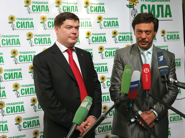 From left to right: Chairman of the Federal Council of the Russian political party Civilian Power Alexander Ryavkin and Chairman of the Supreme Council Mikhail Barshchevsky